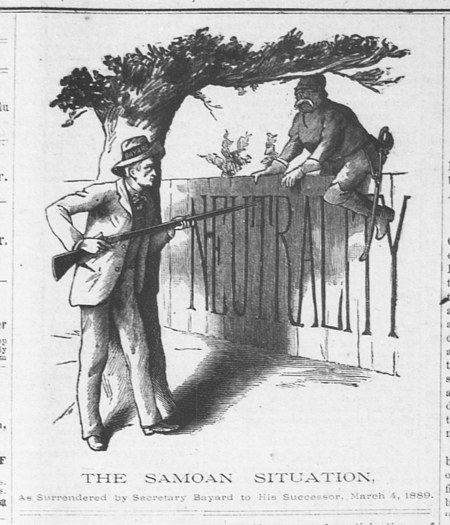 Text: "The Samoan Situation "As surrendered by Secretary Bayard to His Successor, March 4, 1889." U.S. Secretary of State Thomas Francis Bayard points a rifle towards his successor, James Gillespie Blaine, who is climbing over the fence of "neutrality." During this time, Germany was expanding into Samoa, and the United States was trying to counter this expansion. From the University of Hawaii at Manoa Library